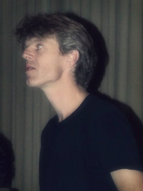 Film director Grant Gee.